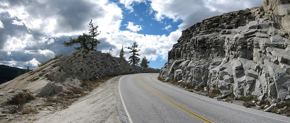 Exfoliation joints cut by Highway 120 in Yosemite National Park.